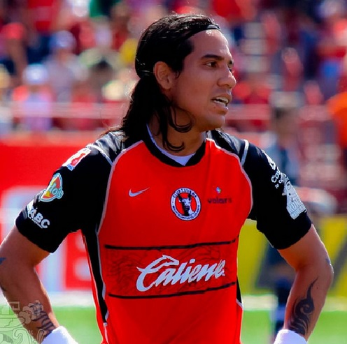 Colombian player Dayro Moreno